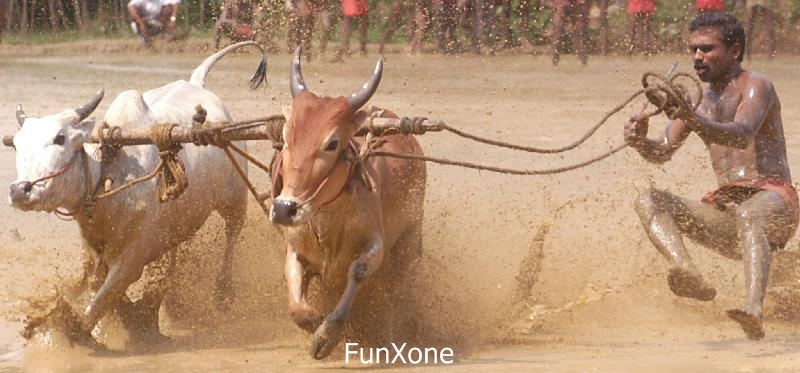 A nostalgic real seen ....